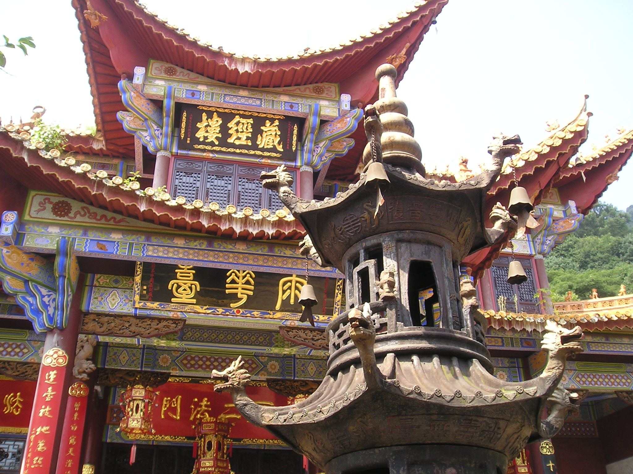 Chinese temple